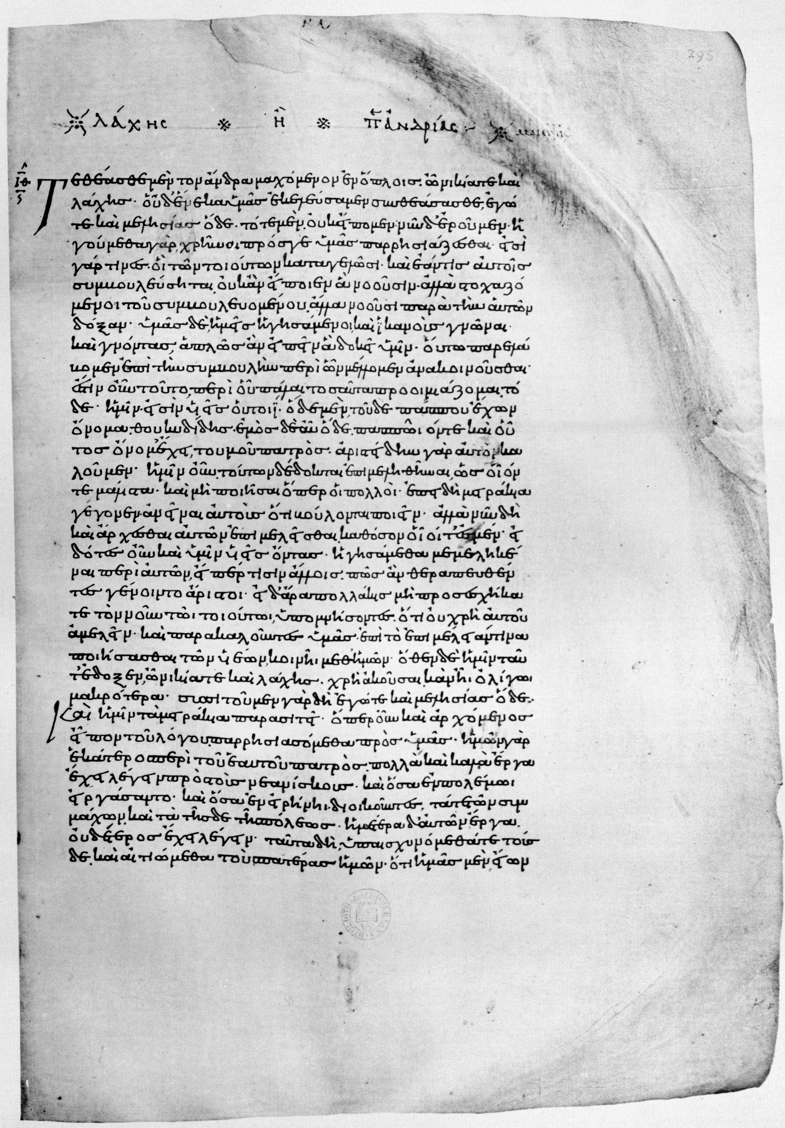 Page of the Codex Oxoniensis Clarkianus 39 (Clarke Plato). Dialogue Laches.